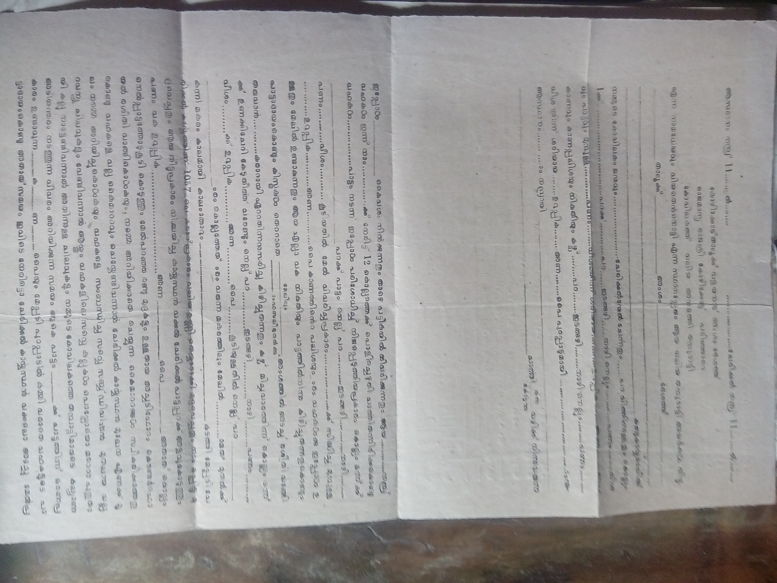 the pattaseettu (tenent agreement) in 1890s. the copy is of calicut padinjare kovilakam. first page